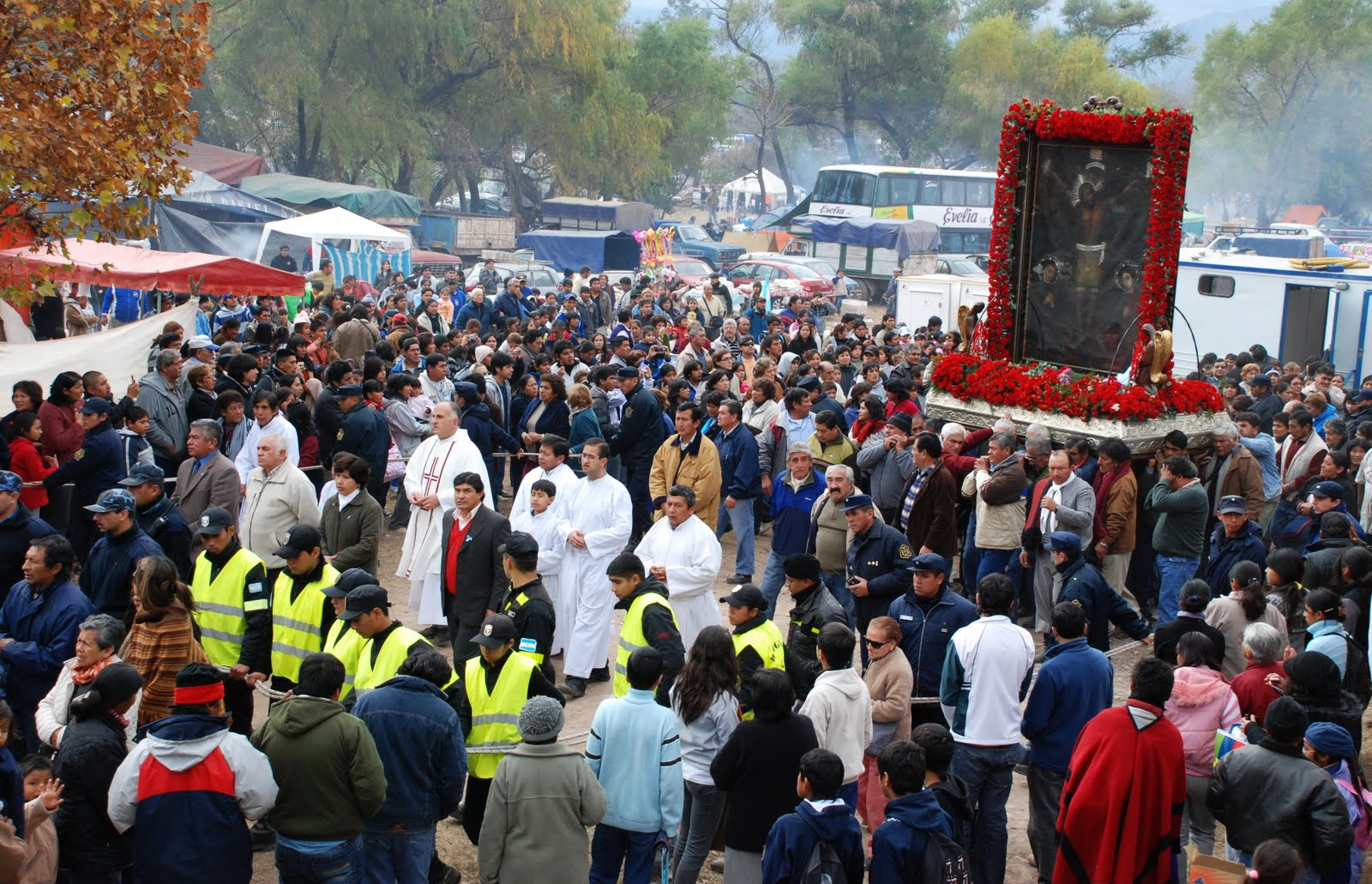 Señor de Sumalao, Salta (Argentina)